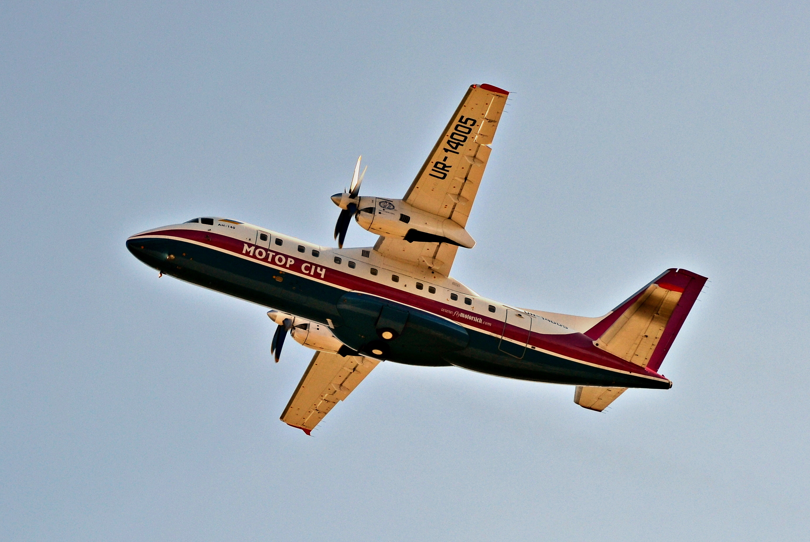 An Antonov An-140 aircraft (registration UR-14005) of Motor Sich Airlines takes off from Václav Havel Airport Prague, Czech Republic (PRG).